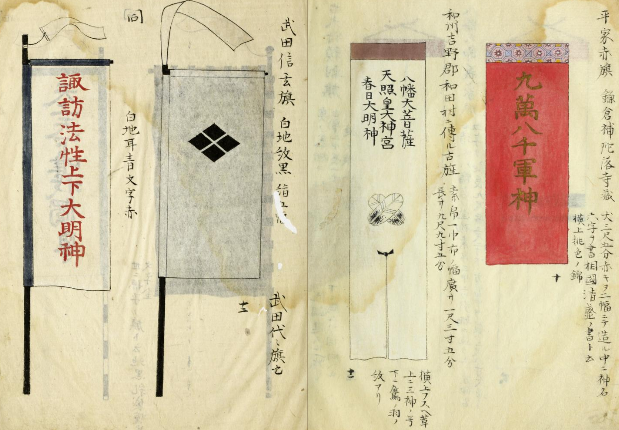 From right to left: -Red banner of the Taira clan. Treasure at the Kamakura Fudaraku temple. Gold lettering "Kyuuman hassan gunjin": "God of 98,000 armies" on red ground with pink brocade at the top. Tozawa writes that the lettering is said to have been the calligraphy of Taira Kyomori, whose excesses and power-mongering were catalysts for the Genpei war 1180-1185. This banner is said short because it is said that the monks at the Fudaraku temple would brew tiny pieces cut from the banner in tea to heal patrons. -Old banner found in Wada village of Yoshino county Yamata province. Course silk with heather brocade border at top; black lettering "hachiman daibosatsu" "Great Bodhisattva Hachiman"; "Amaterasu koutaijinguu" "Grand Imperial Ise Shrines"; "Kasuga daimyoujin" "Great God of Light Kasuga" above embroidered double hawk feathers. -Takeda Shingen hata-jirushi, white ground with black four-diamond crest and white pendant. Tozawa notes that this banner has been used for generations by the Takeda family. -Hata-jirushi, white ground with blue border, white pendant, and red lettering, "Suwa hosshou kamishimo daimyoujin" "Great Gods of Light of Suwa."